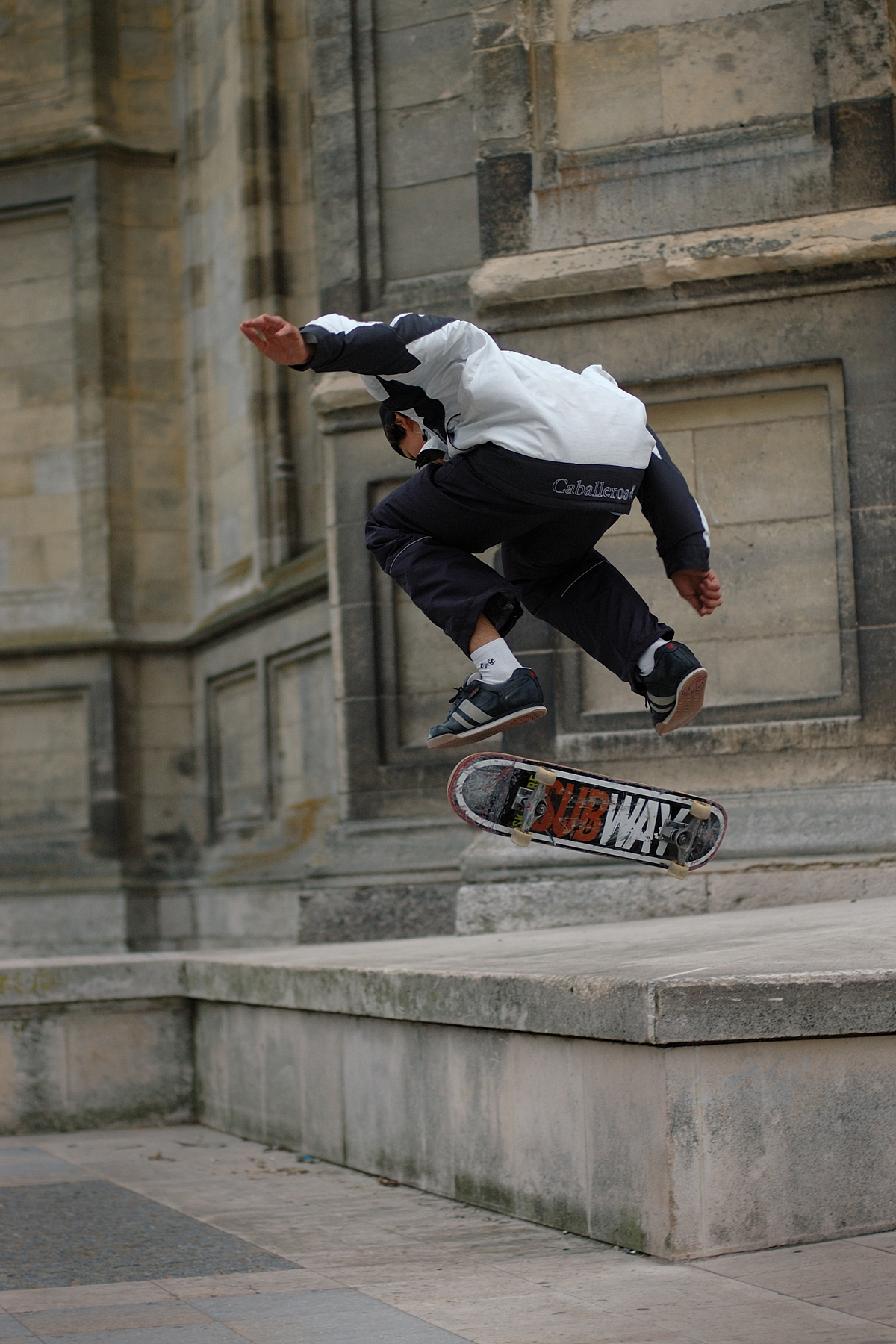 Skateboarding training session in front of the cathedral of Orleans (France)